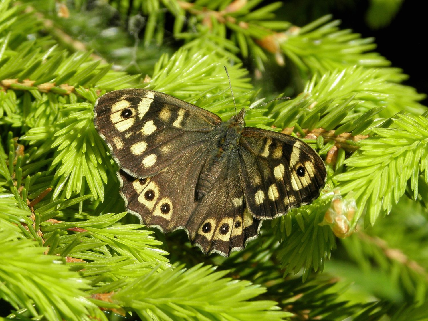 Speckled Wood (Pararge aegeria) at Tived, Örebro. 5 June 2010